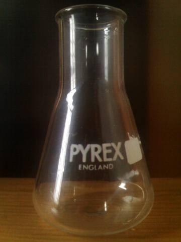 a photo of a Pyrex-make conical flask